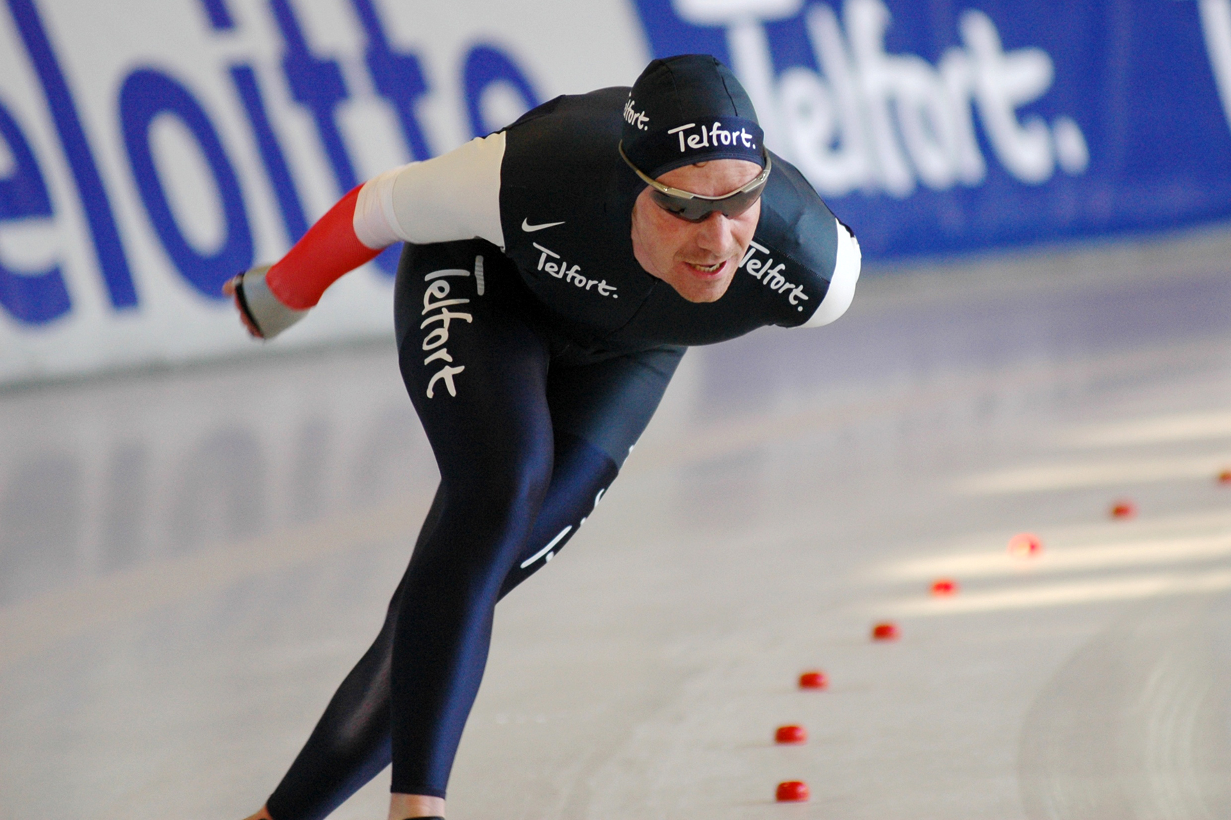 Bob de Jong, speedskater from The Netherlands